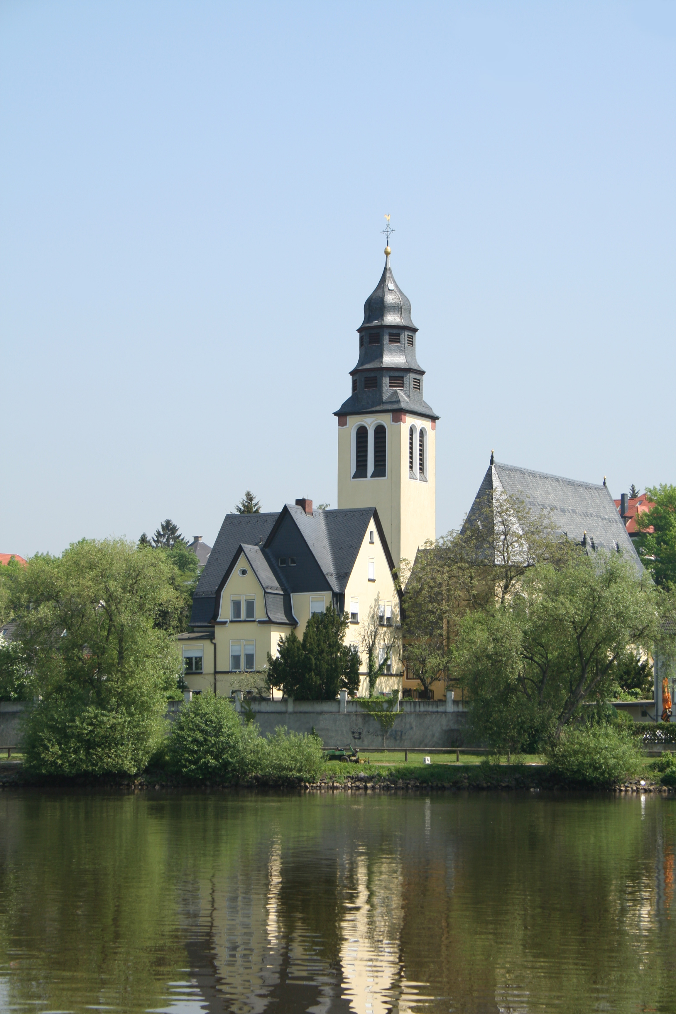 Herz-Jesu-Kirche viewed from Frankfurts riverside of Main